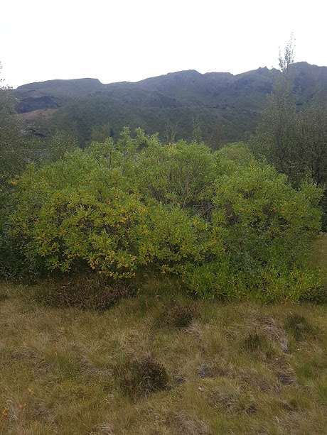 Tea leaved Willow in Básar